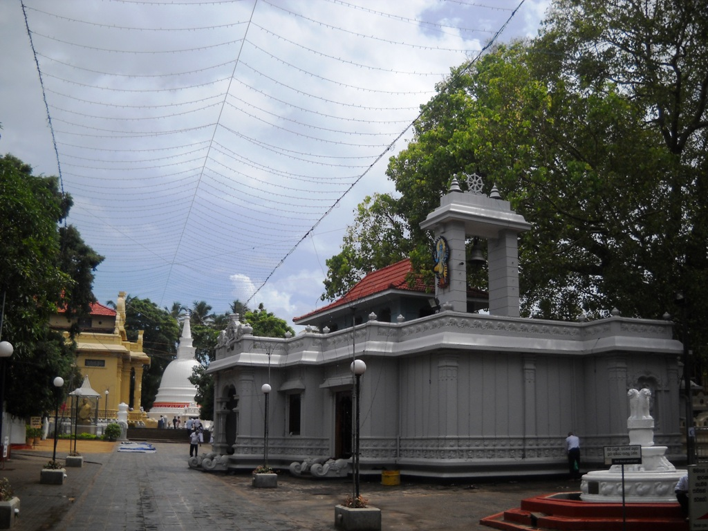 Bellanwila Vihara is a famous Buddhist temple in Colombo, Sri Lanka.